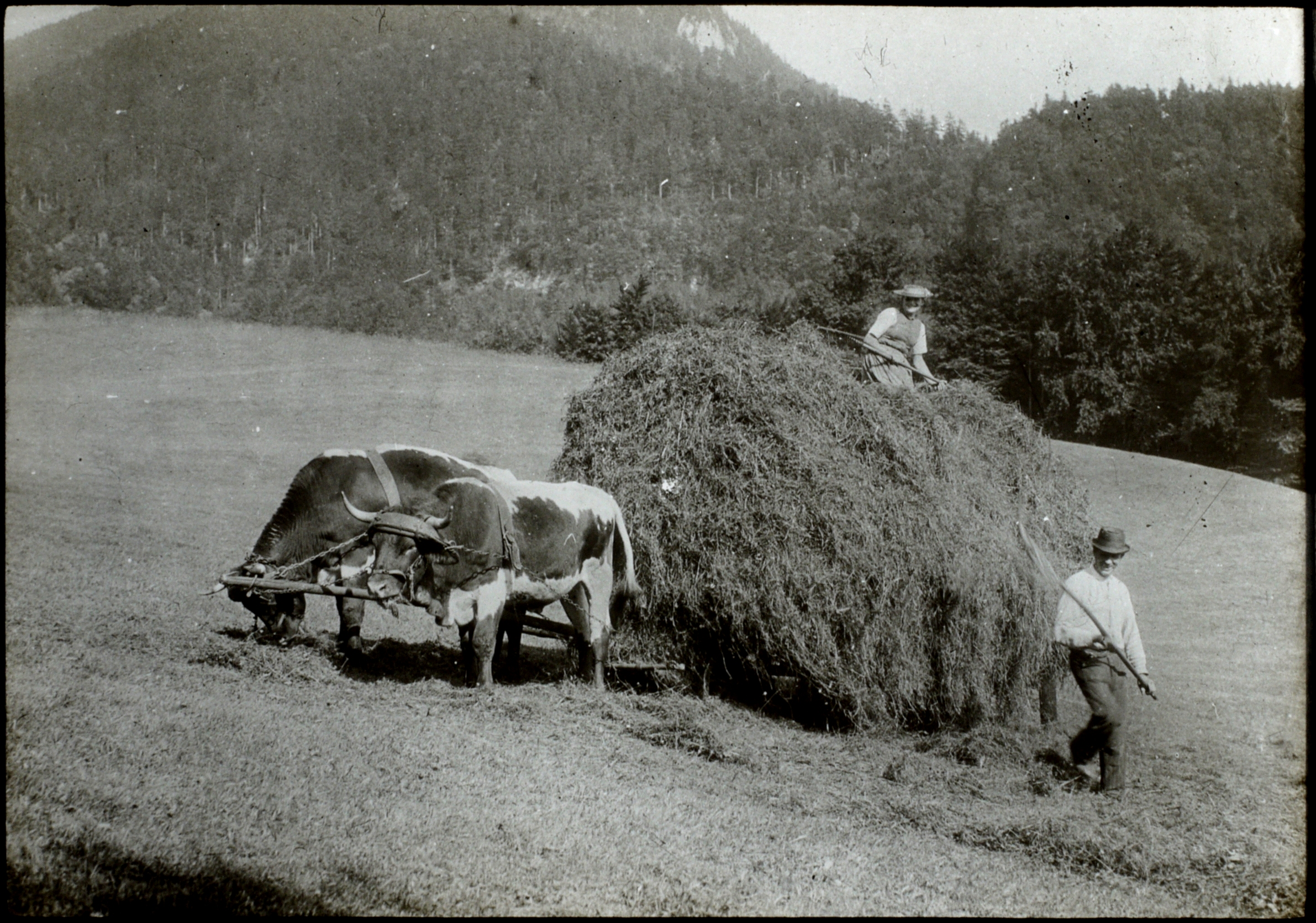 July 1903 - on the Gaisberg, nr Salzburg. Photo by A.E.Hasse, Baildon, Yorkshire. Glass plate 2x2 diapositive